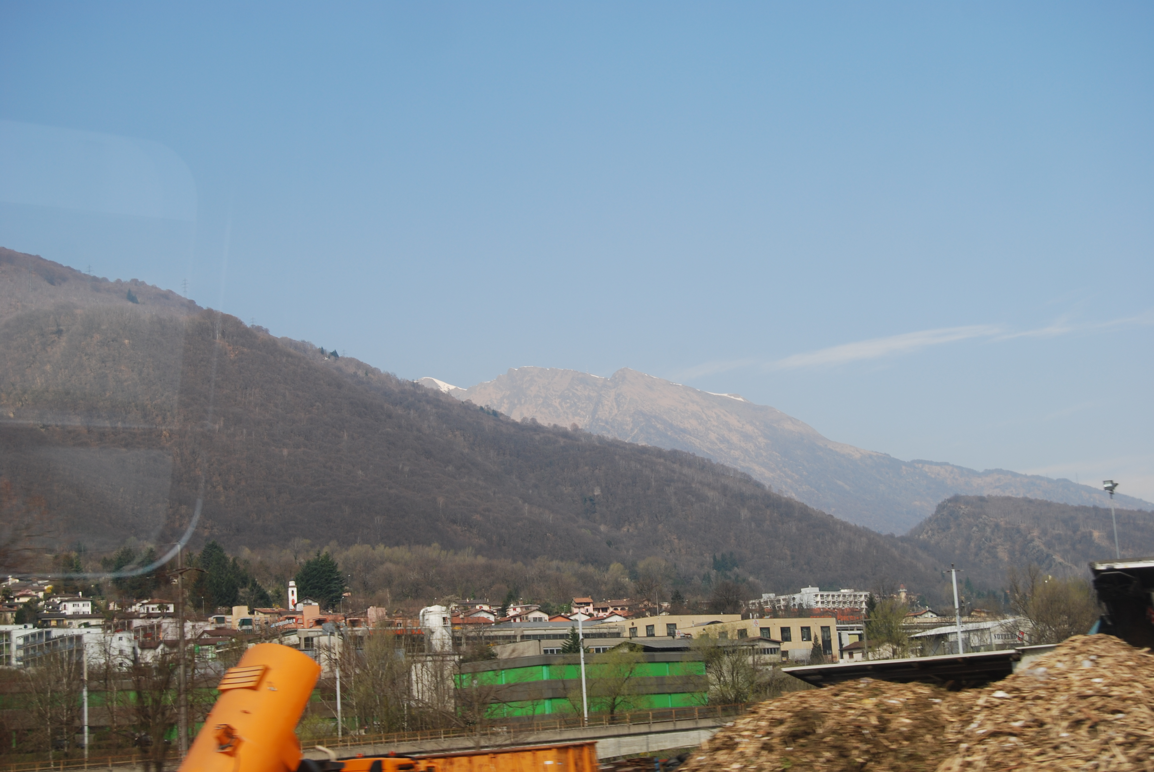 Bedano, canton of Ticino, SwitzerlandEsperanto: Bedano, Kantono Tiĉino, Svislando